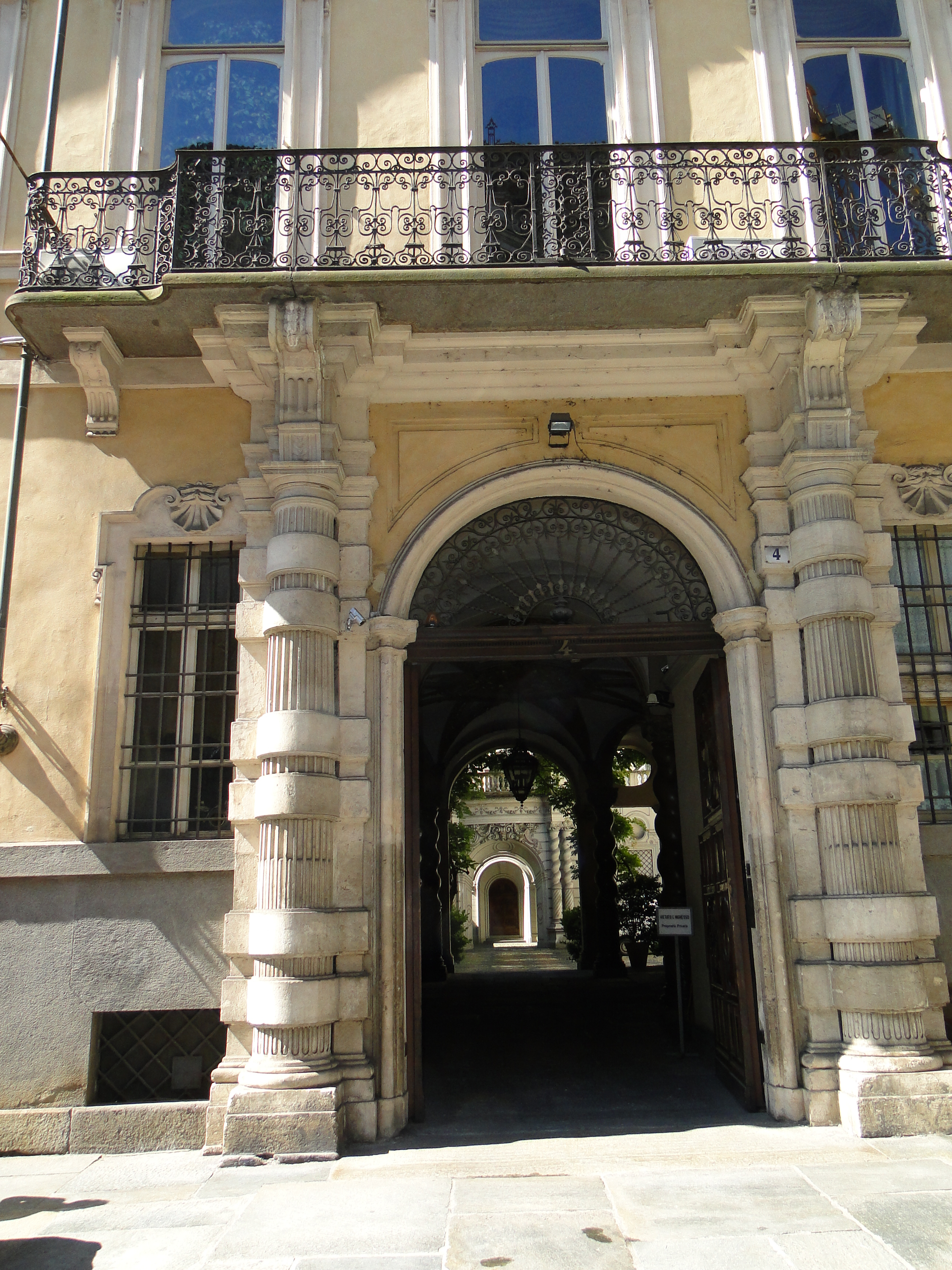 Palace of Asinari di San Marzano - Main door